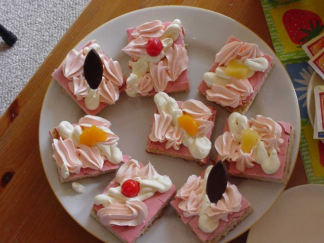 Typical Frisian (Netherlands) Oranjekoek